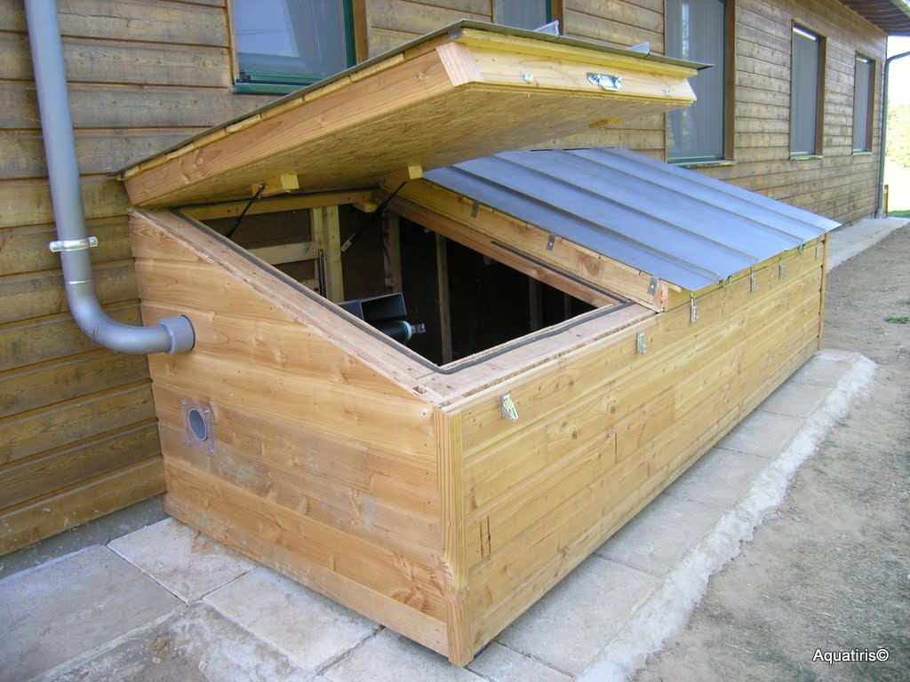 Ecodomeo Photo by Eduard Le Douarin